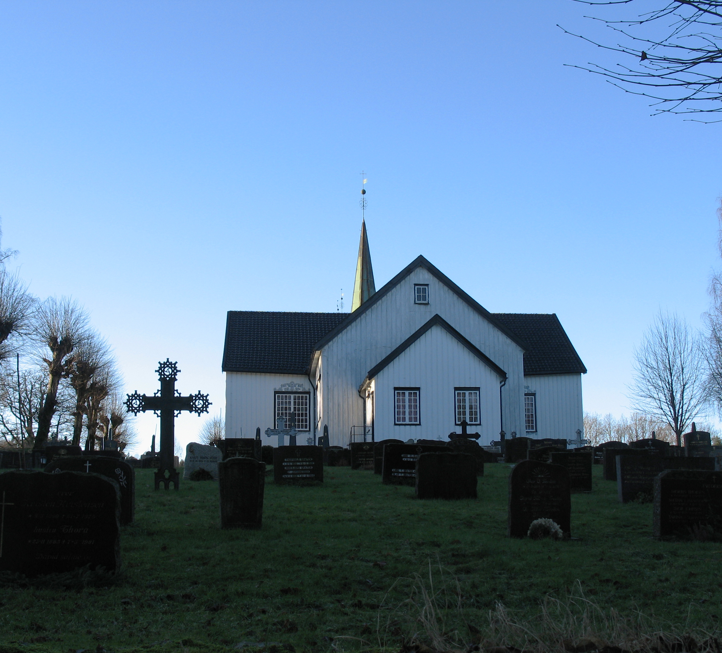 Austre Moland kirke